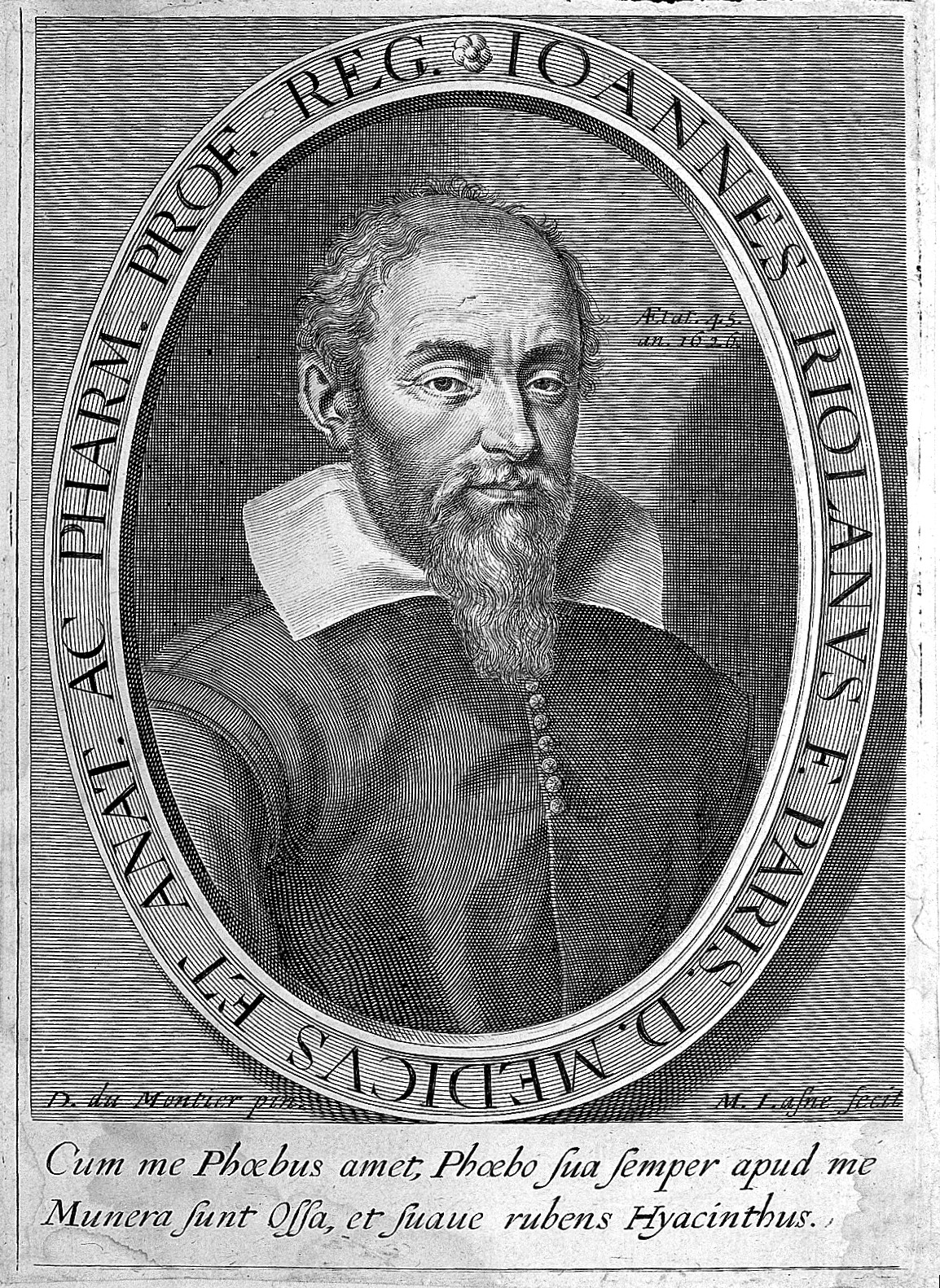 Iconographic Collections